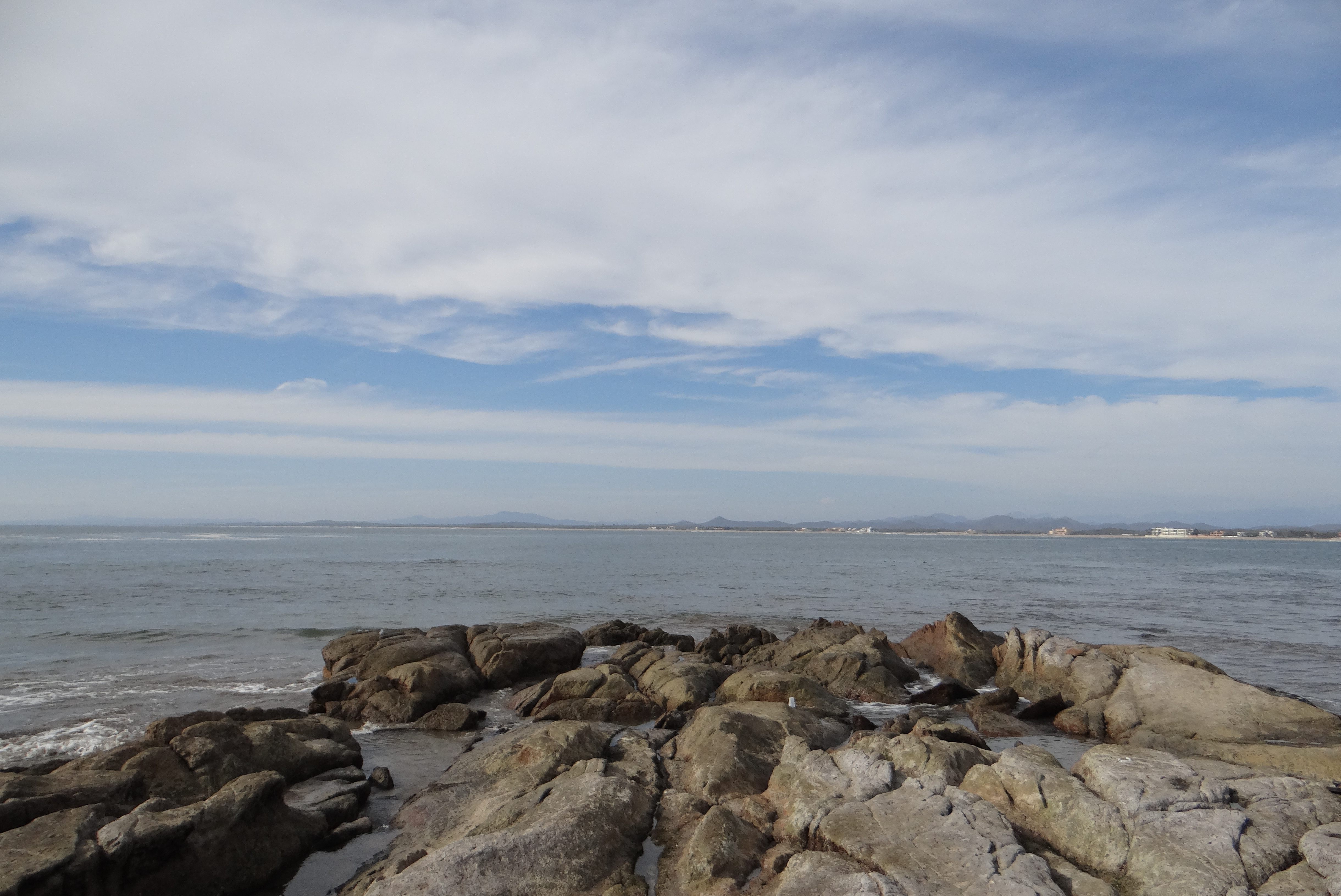 Part where the Pacific Ocean and Gulf of California meet, viewed from Cerritos Beach, located in Mazatlan, Sinaloa, Mexico.